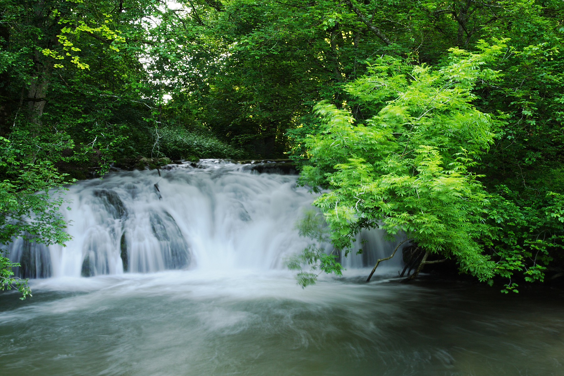 Water fall at the lower “Große Lauter”. The river’s picturesque karst spring in “Offenhausen” (Gomaringen) and the green, picturesque valley meandering 44 km through the karstic Swabian Alb are a great attraction, worldwide. Its water carries lots of soluted calcium carbonate, which is chemically precipitated and sedimented as calcareous tuff, whenever the drop of the river increases suddenly. That is the case 3 km after the village “Anhausen”, as the geologist H. Prinz stated. At the “Laufenmühle” (near “Lauterach”) the drop of the river increases again suddenly. There, the relatively wide valley’s calcareous tuff has already been totally exploited in several large quarries. Other causes beside turbulent water are scientifically insufficiently backed.